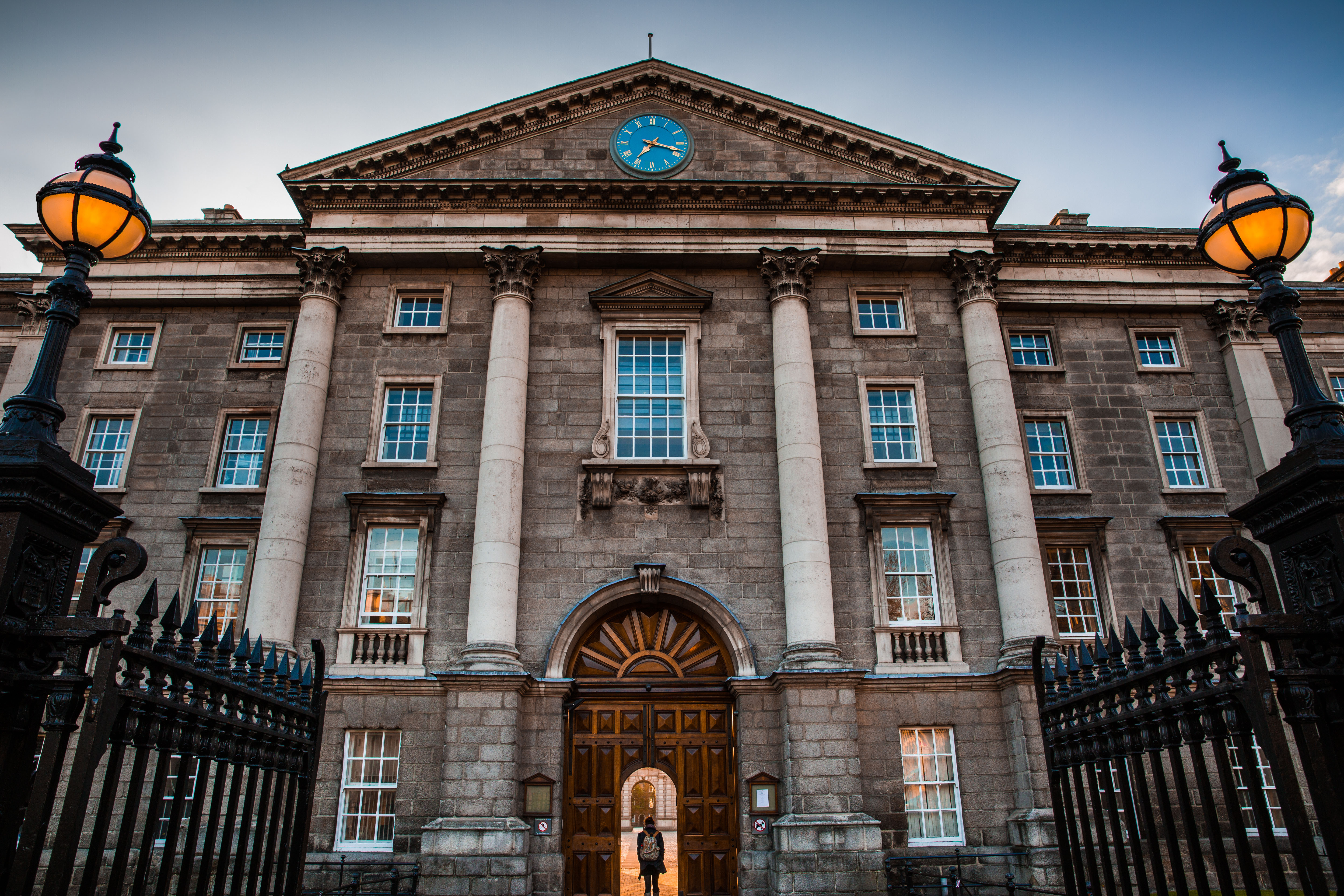 Trinity College, Dublin, Ireland